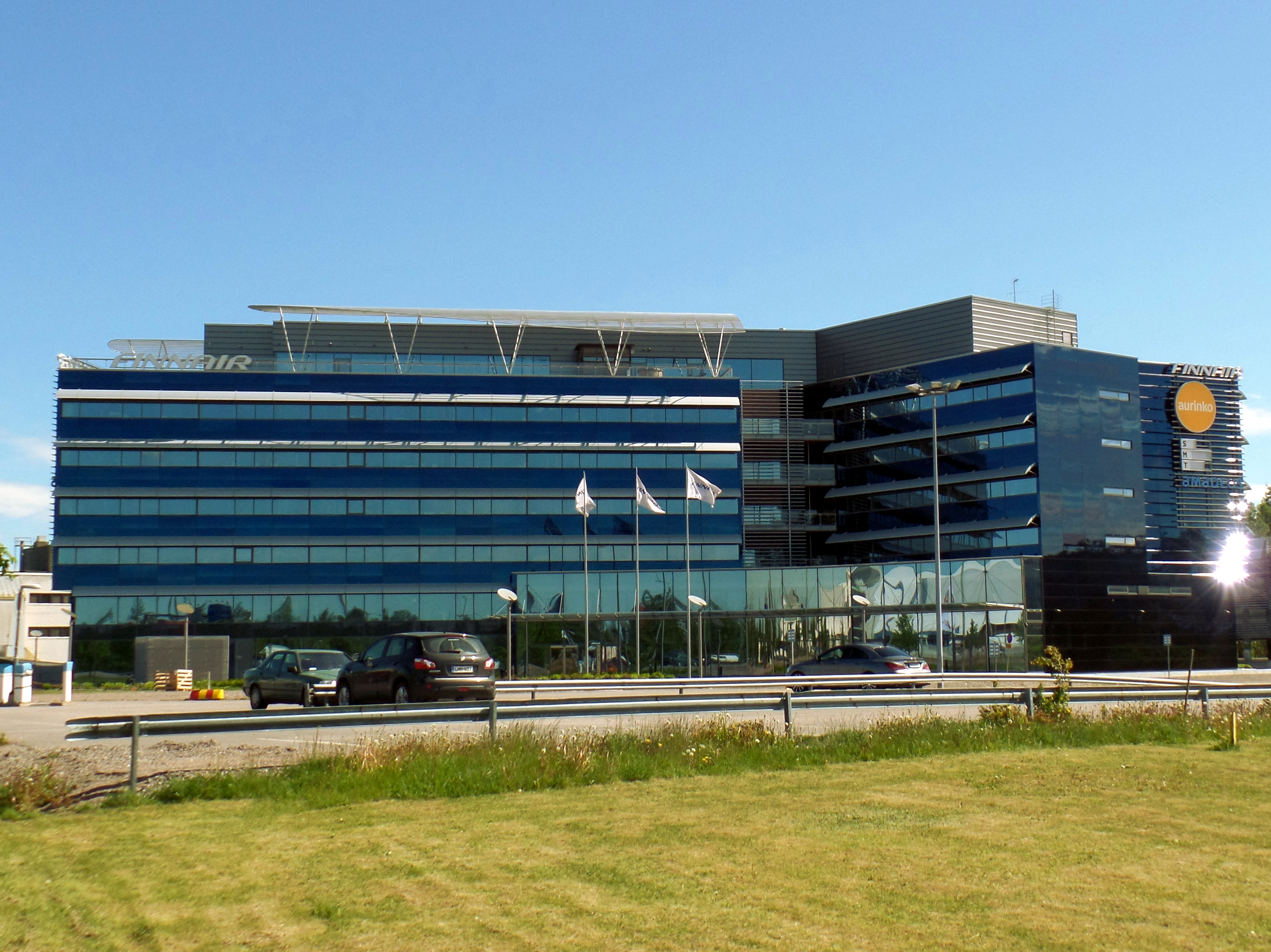 Finnair head office on 5 June 2015.